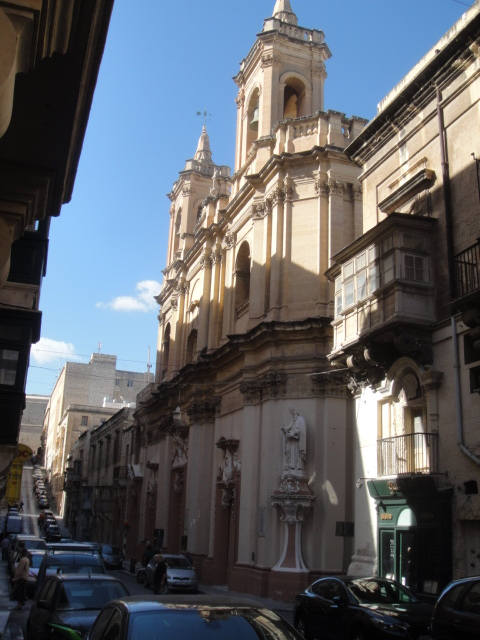 The parish church of St Augustine in Valletta Malta.